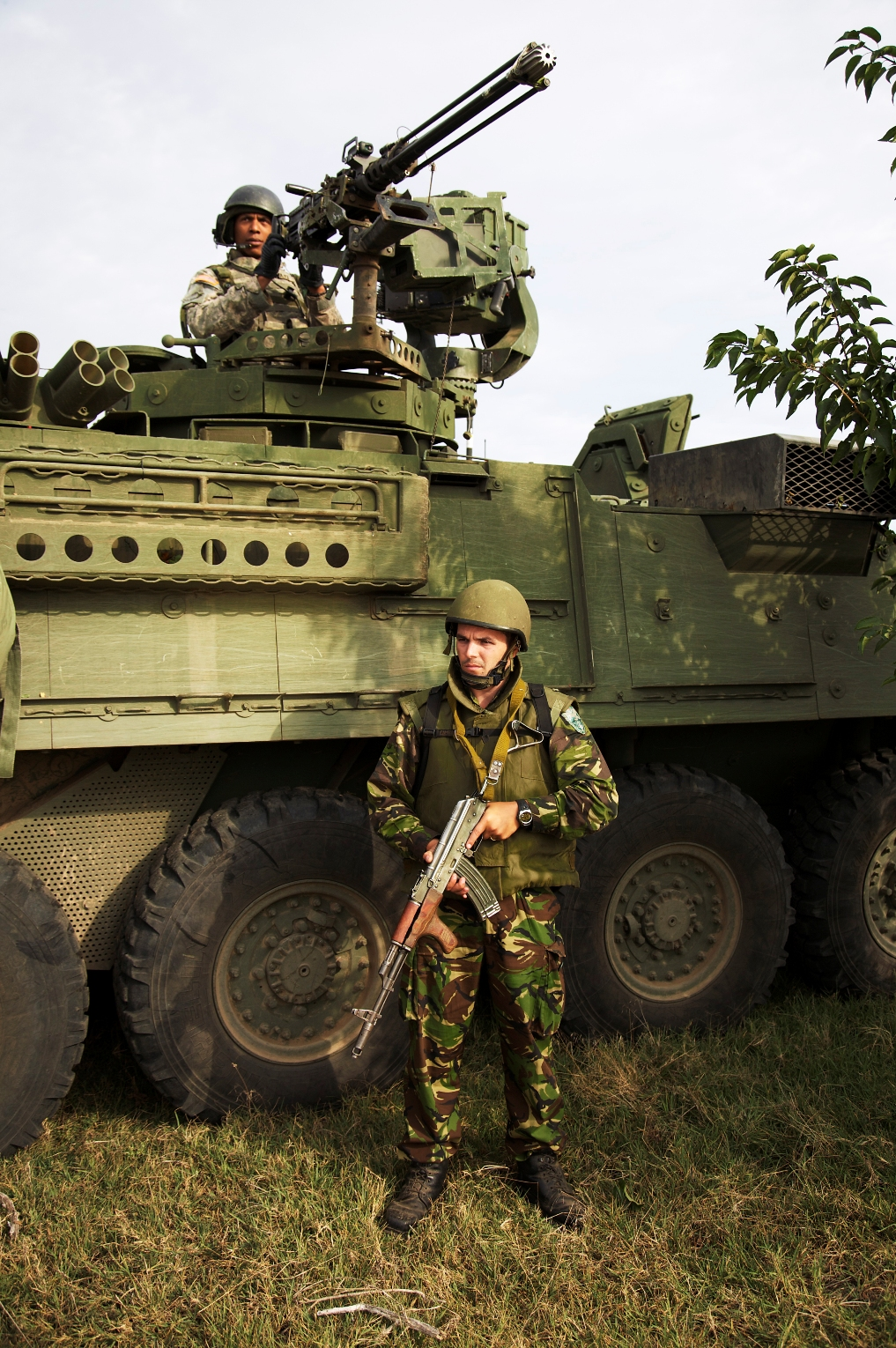 BABADAG TRAINING AREA, Romania - U.S. Soldiers of the 2nd Stryker Cavalry Regiment and Romanian forces of the 33rd Mountain Troop Battalion, Posada train together during the 2009 JTF-East rotation at the Babadag Training Area, Romania.